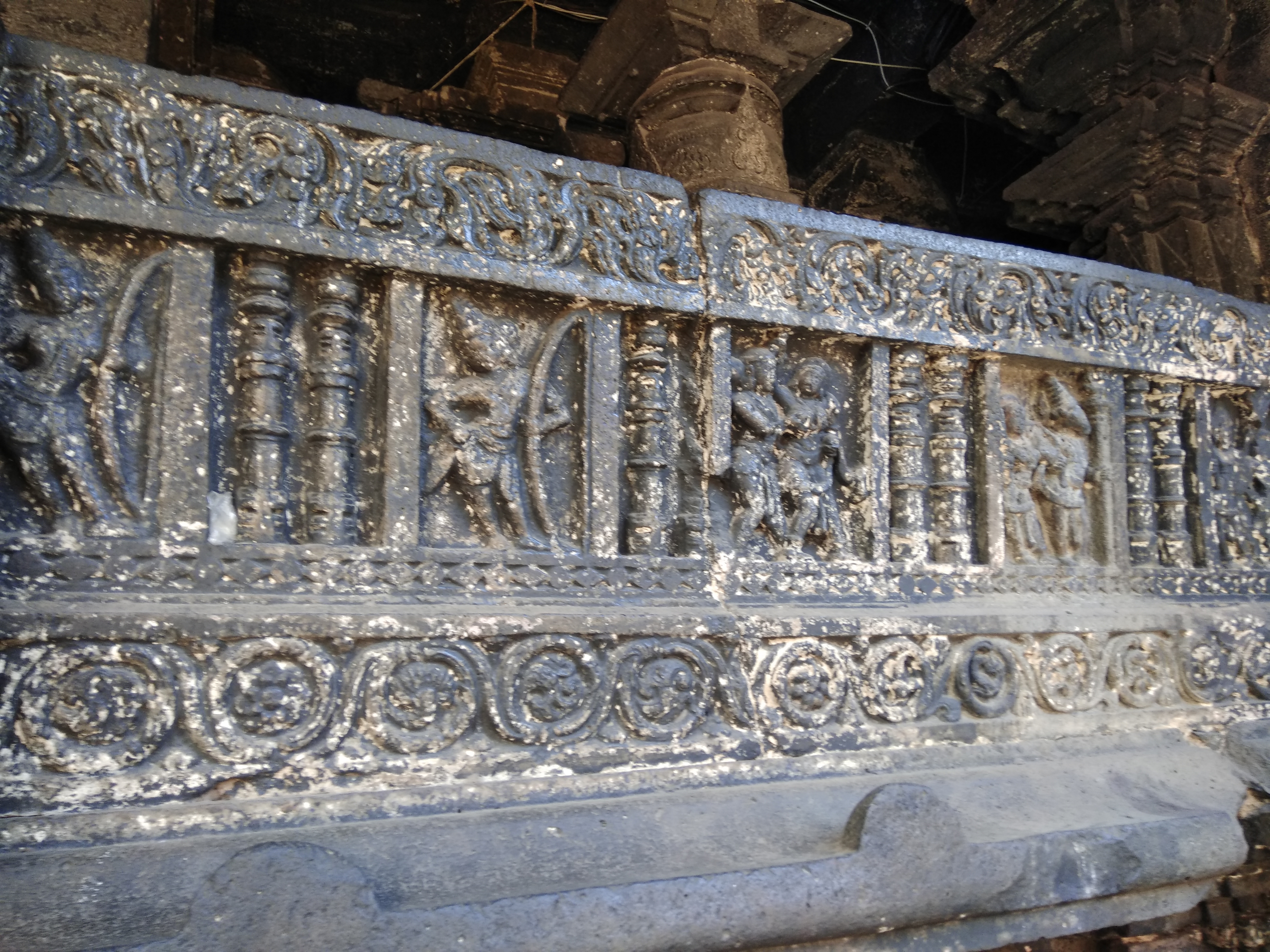 Sculpture at mahalakshmi mandir kolhapur